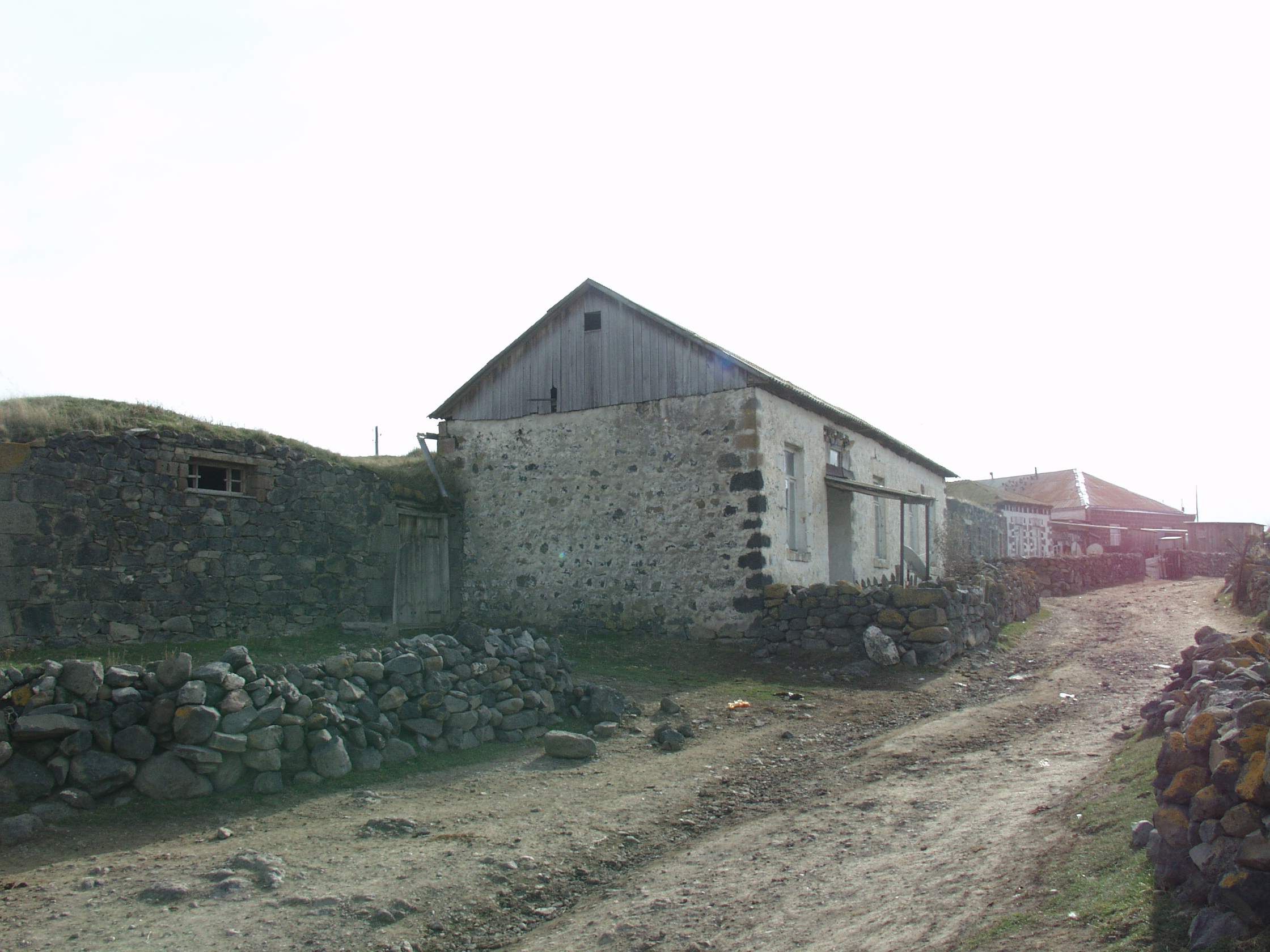 Ջիվանու տունը 1960-ական թթ.